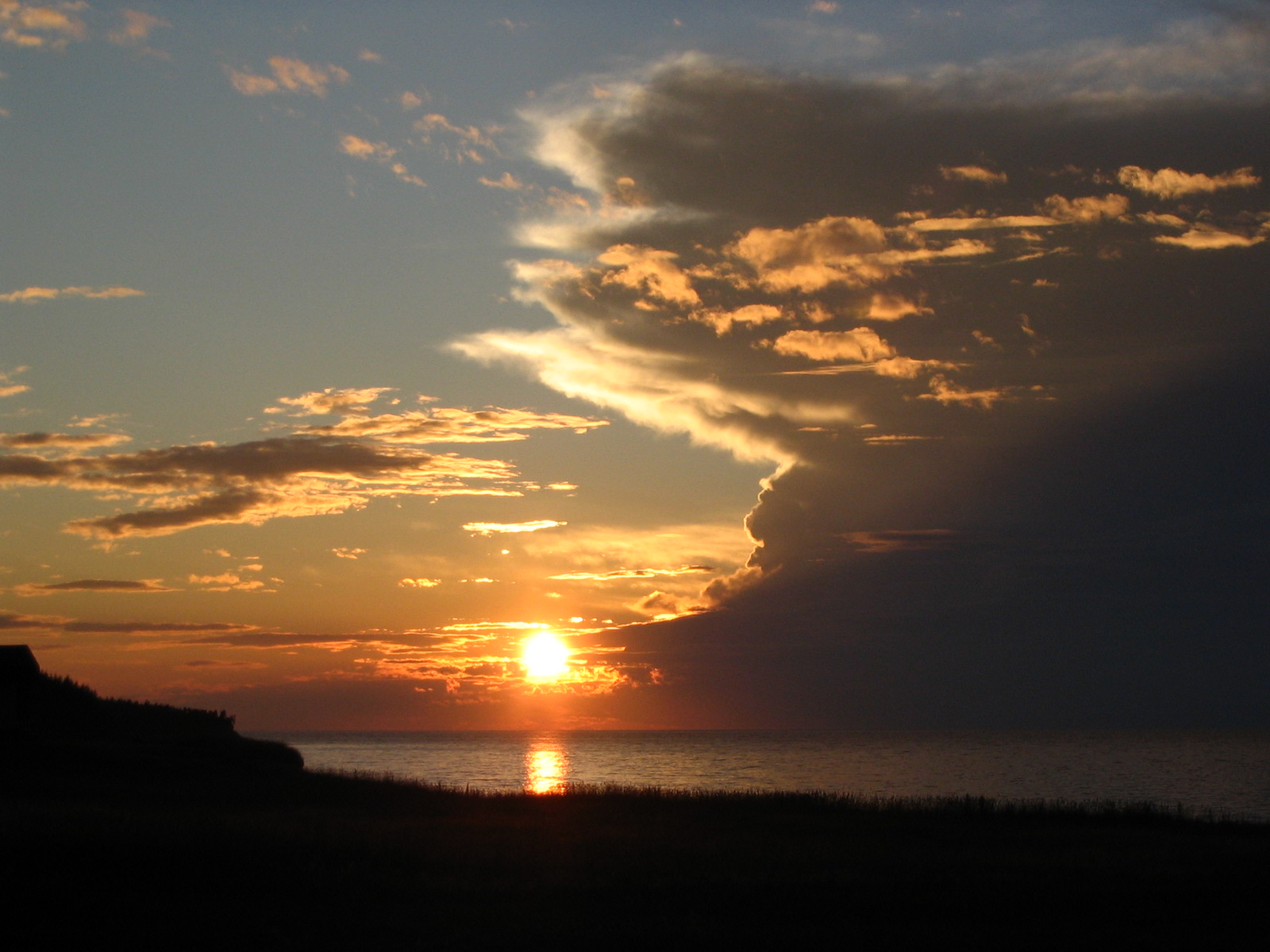 Sunset at Nova Scotia